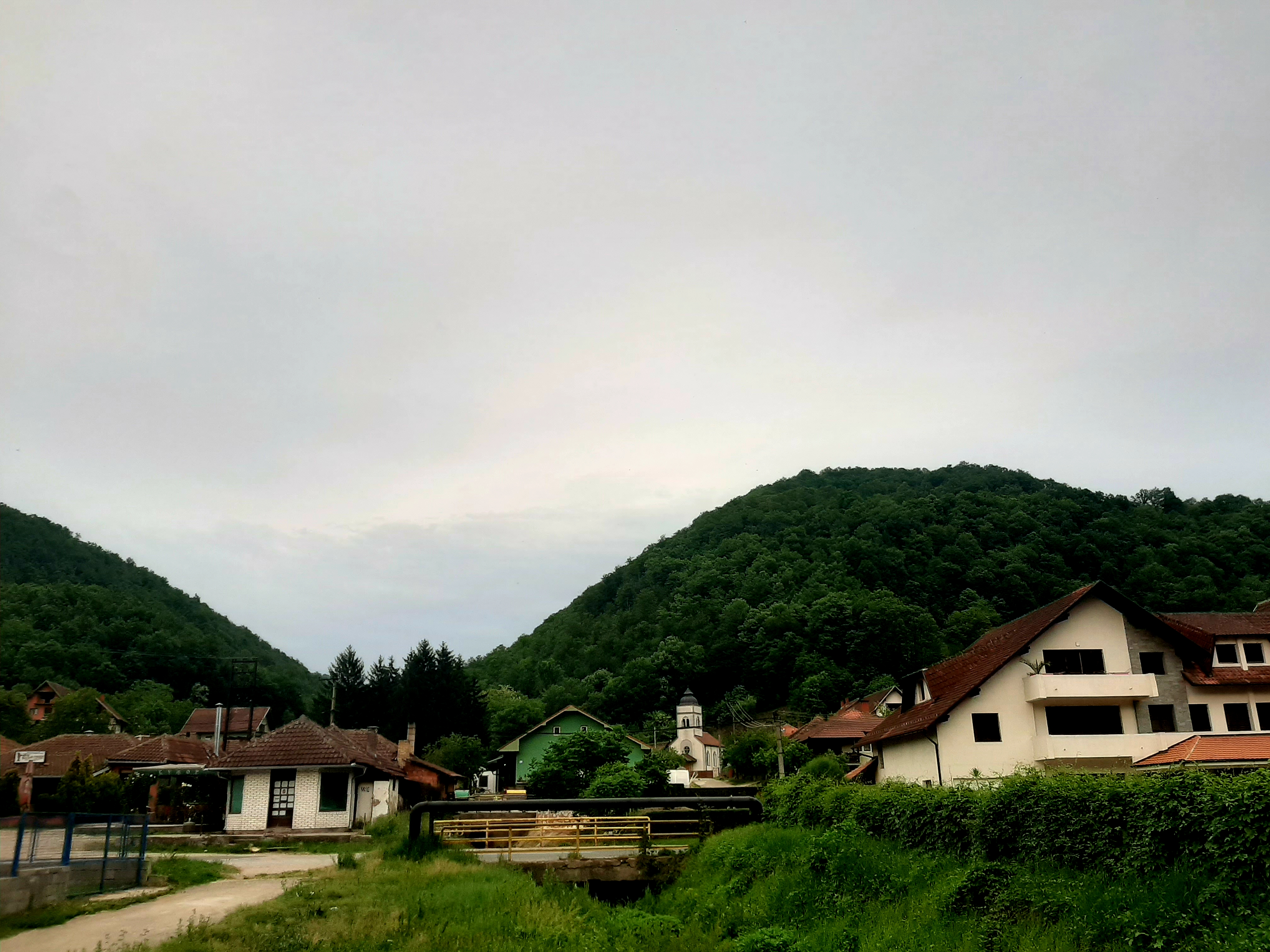 Mosna, Majdanpek municipality, Serbia. Captured on May 2020